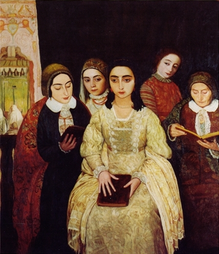 Painting of Maurycy Minkowski (deceased in 1930): the yong bride